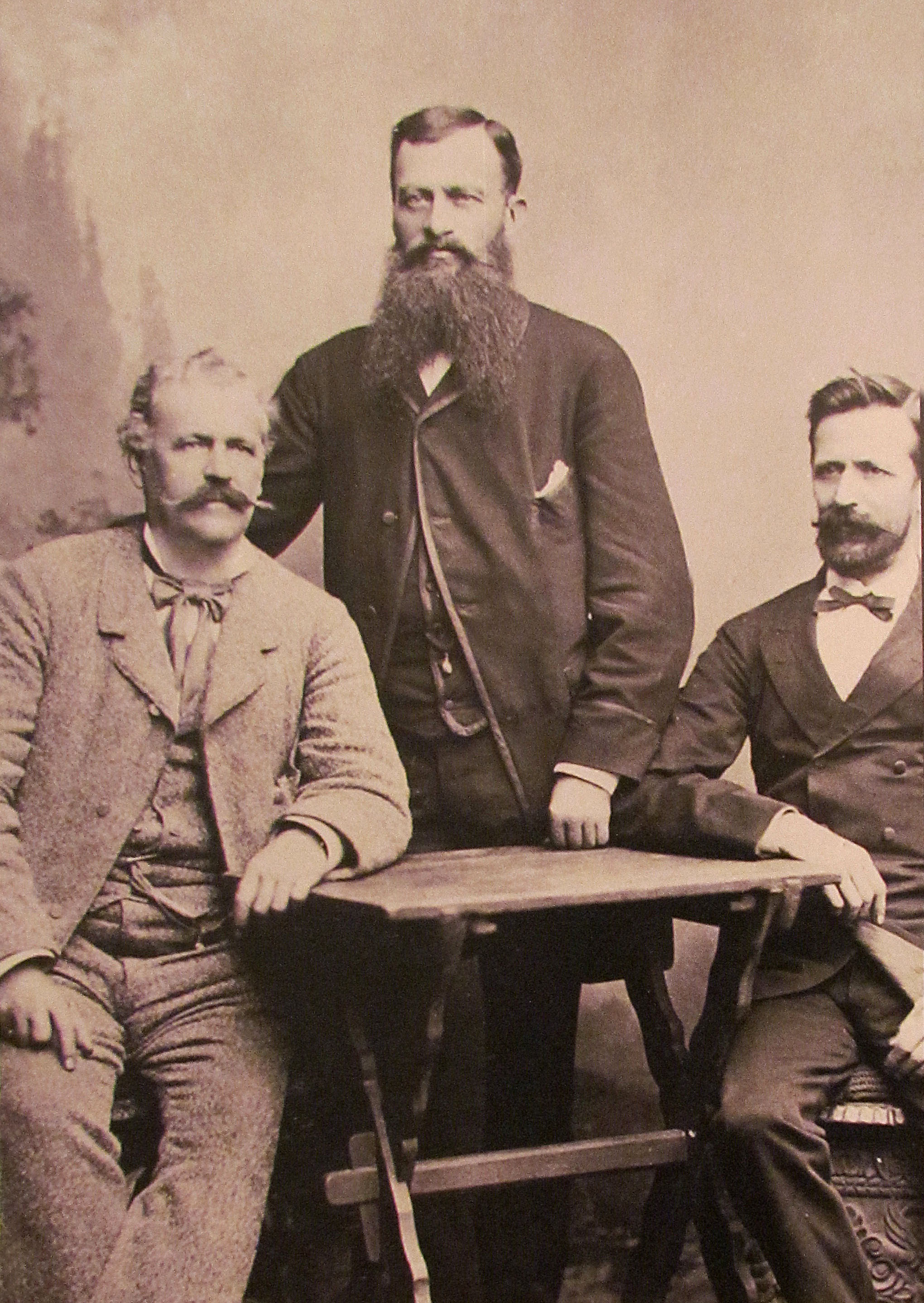 Kosta Alkovic, Ljubomir Kleric and Dimitrije Nesic, professors of University of Belgrade